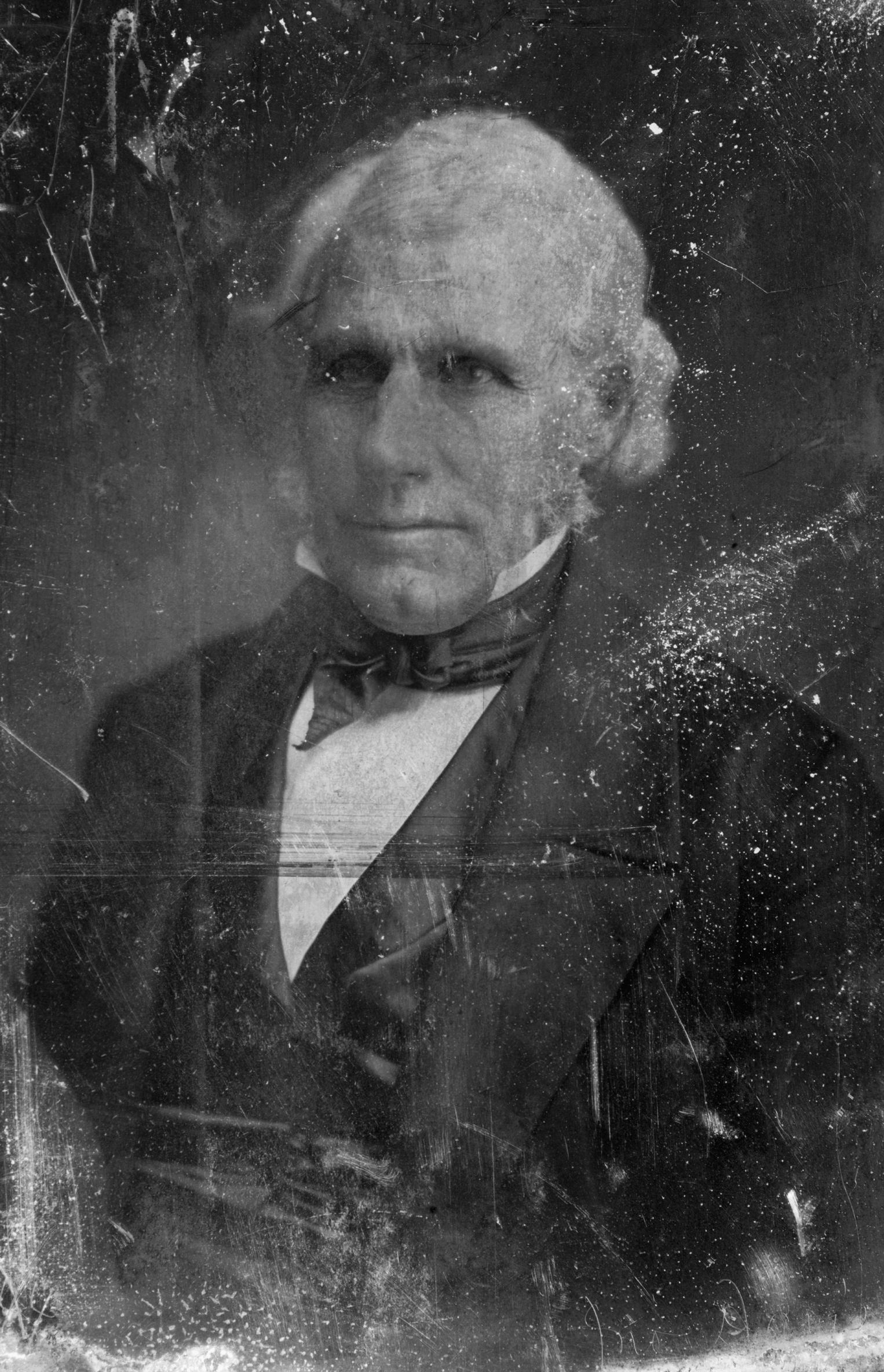 John Davis (1787-1854), governor of Massechusetts.